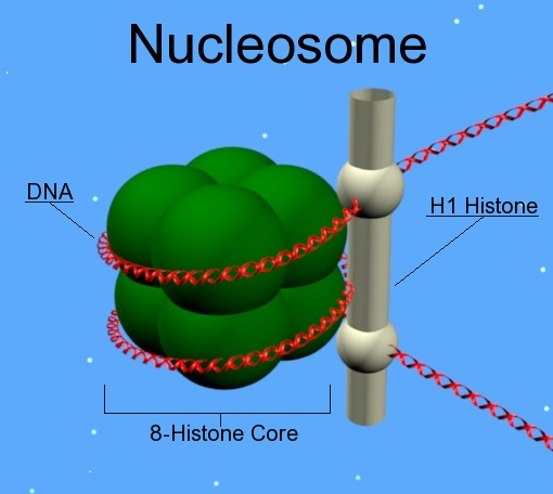 A 3-D Illustration of the basic structure of a nucleosome Created in Blender3D and annotated with TheGIMP